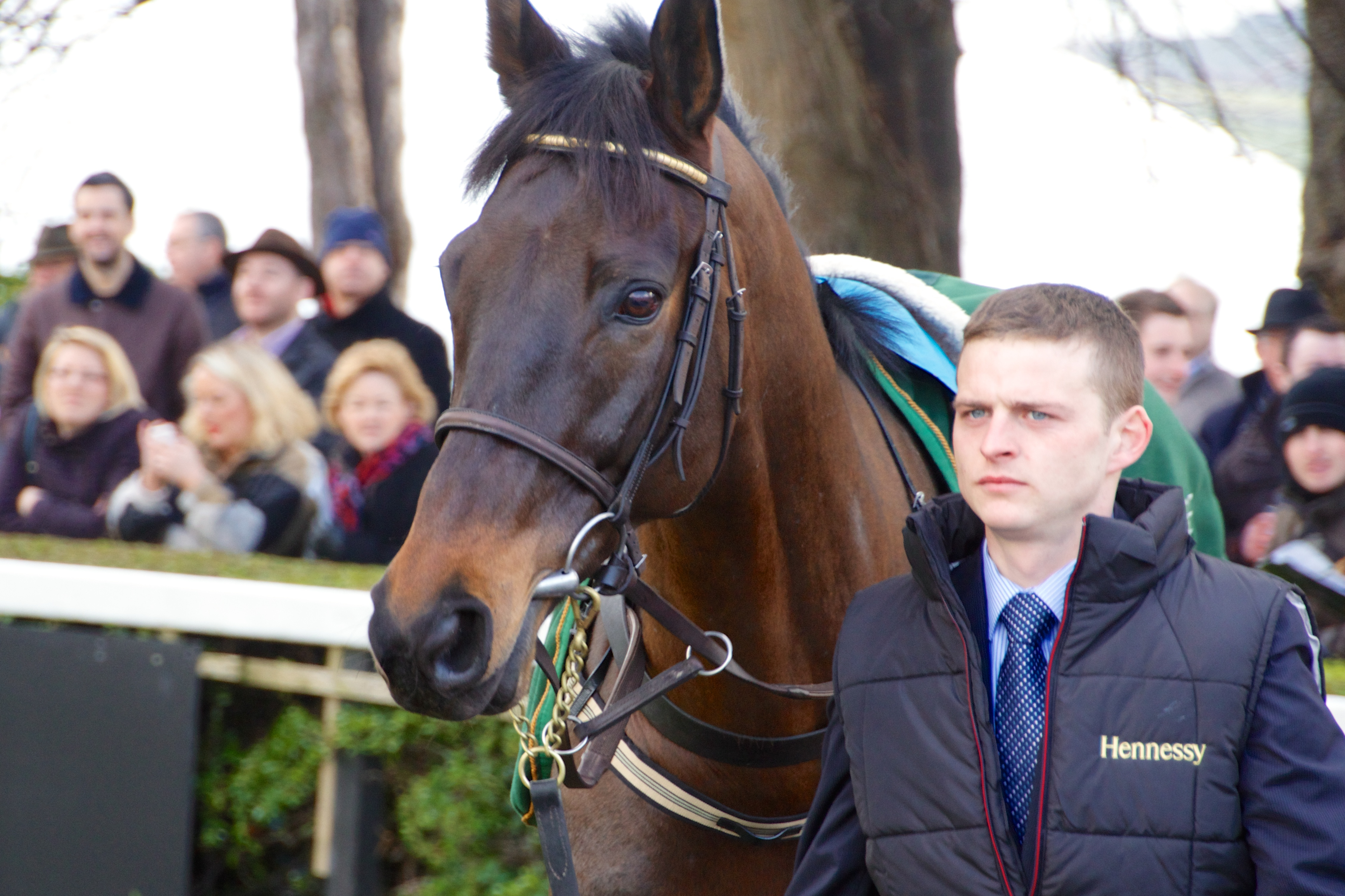 Sir Des Champs at Leopardstown Hennessy on 09/02/2013.